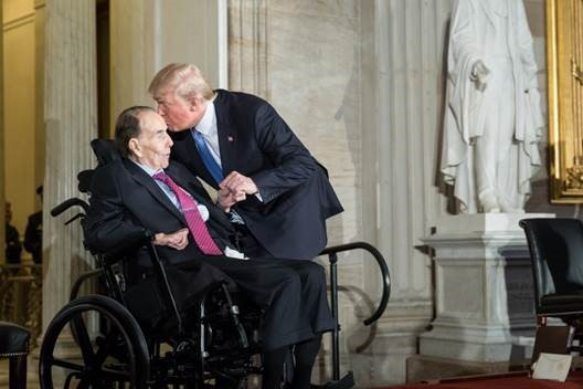 President Donald J. Trump embraces and kisses former U.S. Senator Bob Dole, R-KS, Wednesday, Jan. 17, 2018, as Dole was presented with the Congressional Gold Medal, the nation's highest civilian honor, at the U.S. Capitol in Washington D.C.